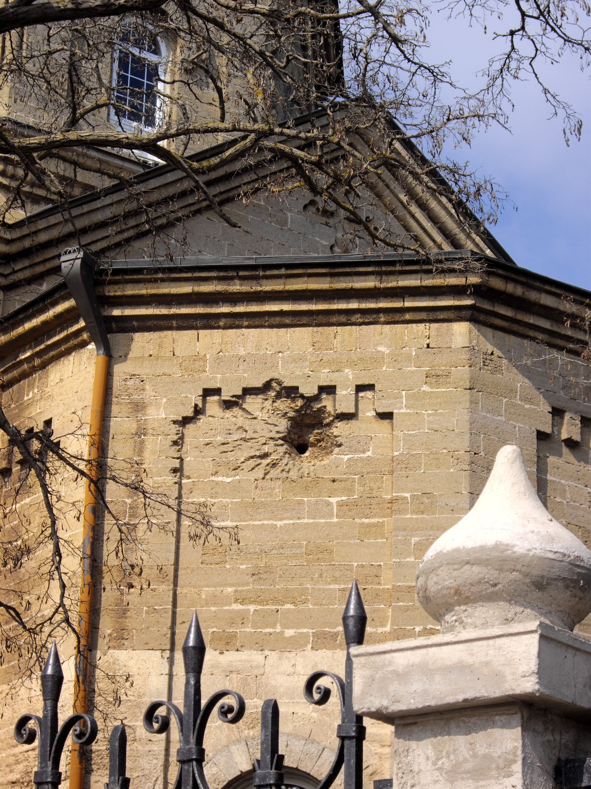 St. Elias Church (Greek Church) (1918) in Eupatoria, Crimea, Ukraine